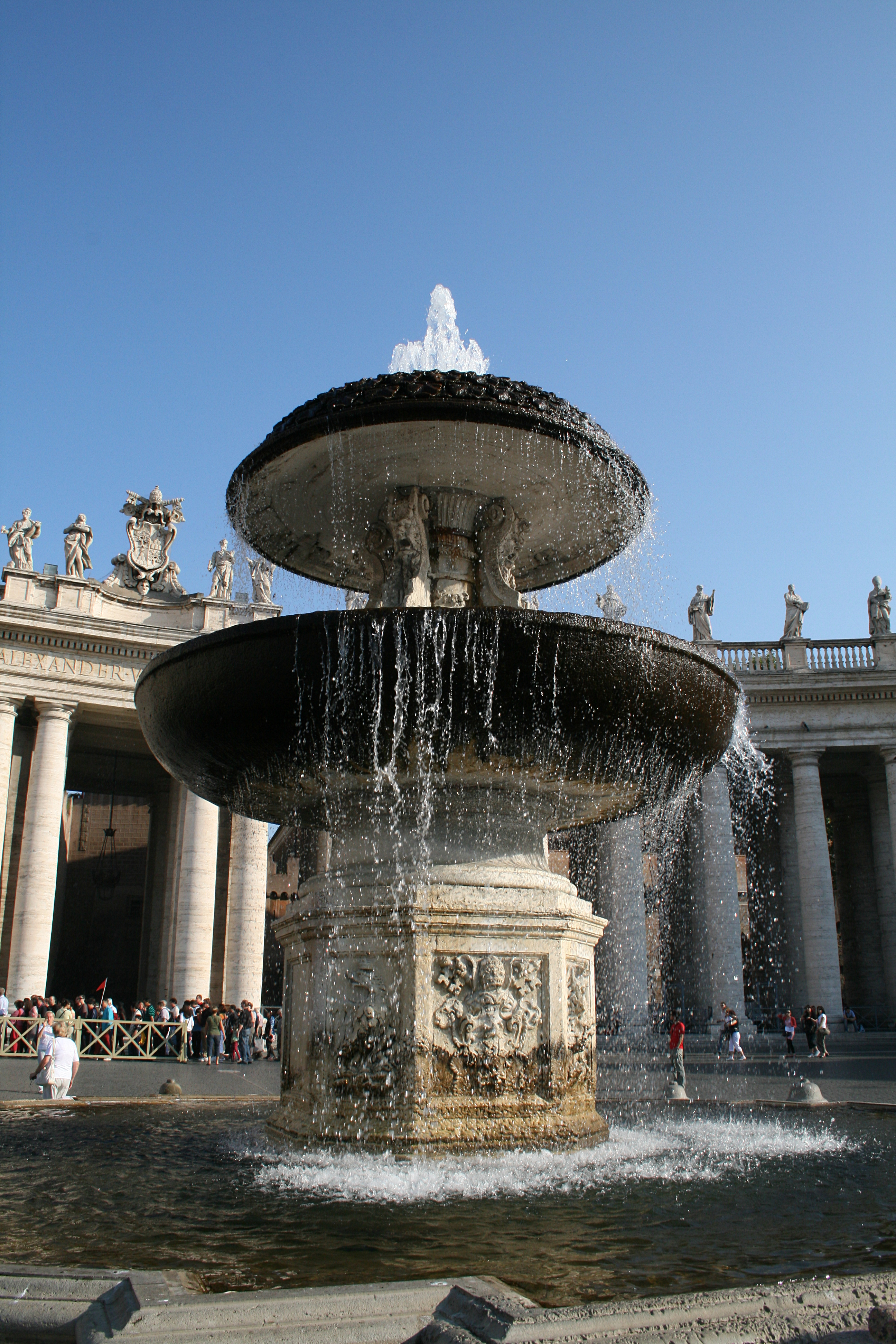 "Antico" fountain built in 1614 by Carlo Maderno on the Saint Peter's Square in Vatican City.